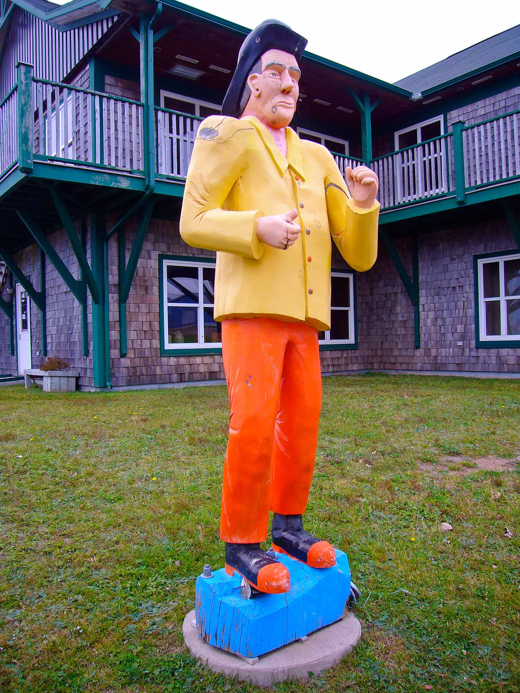 jimmy mac the grooving fisherman